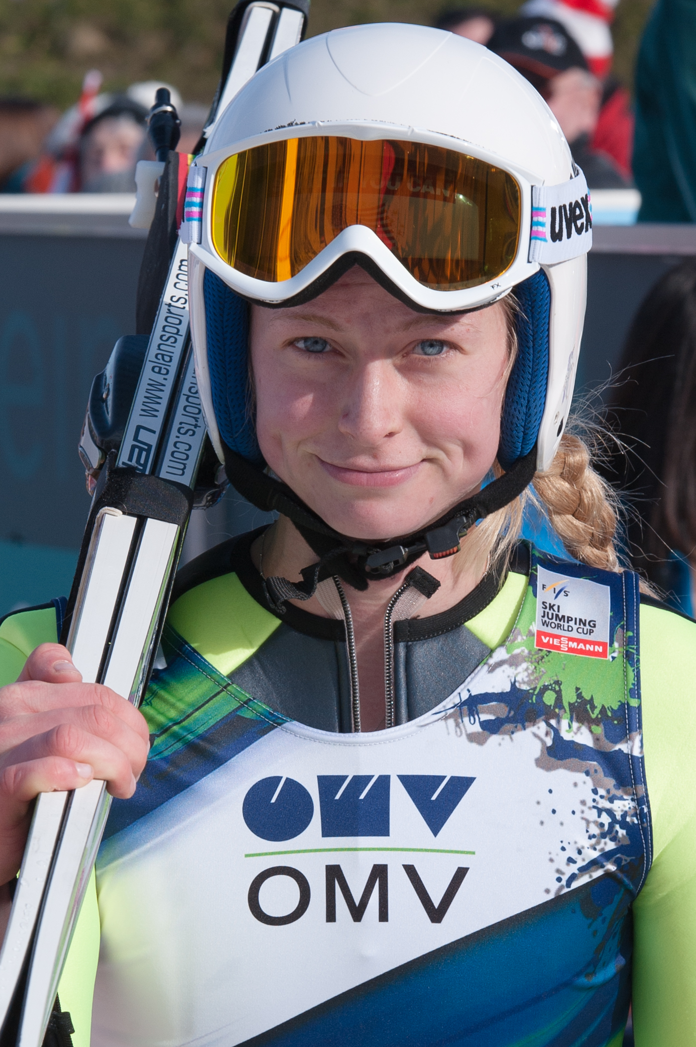 FIS Ski Jumping World Cup Hinzenbach Sun 1 Feb 2015